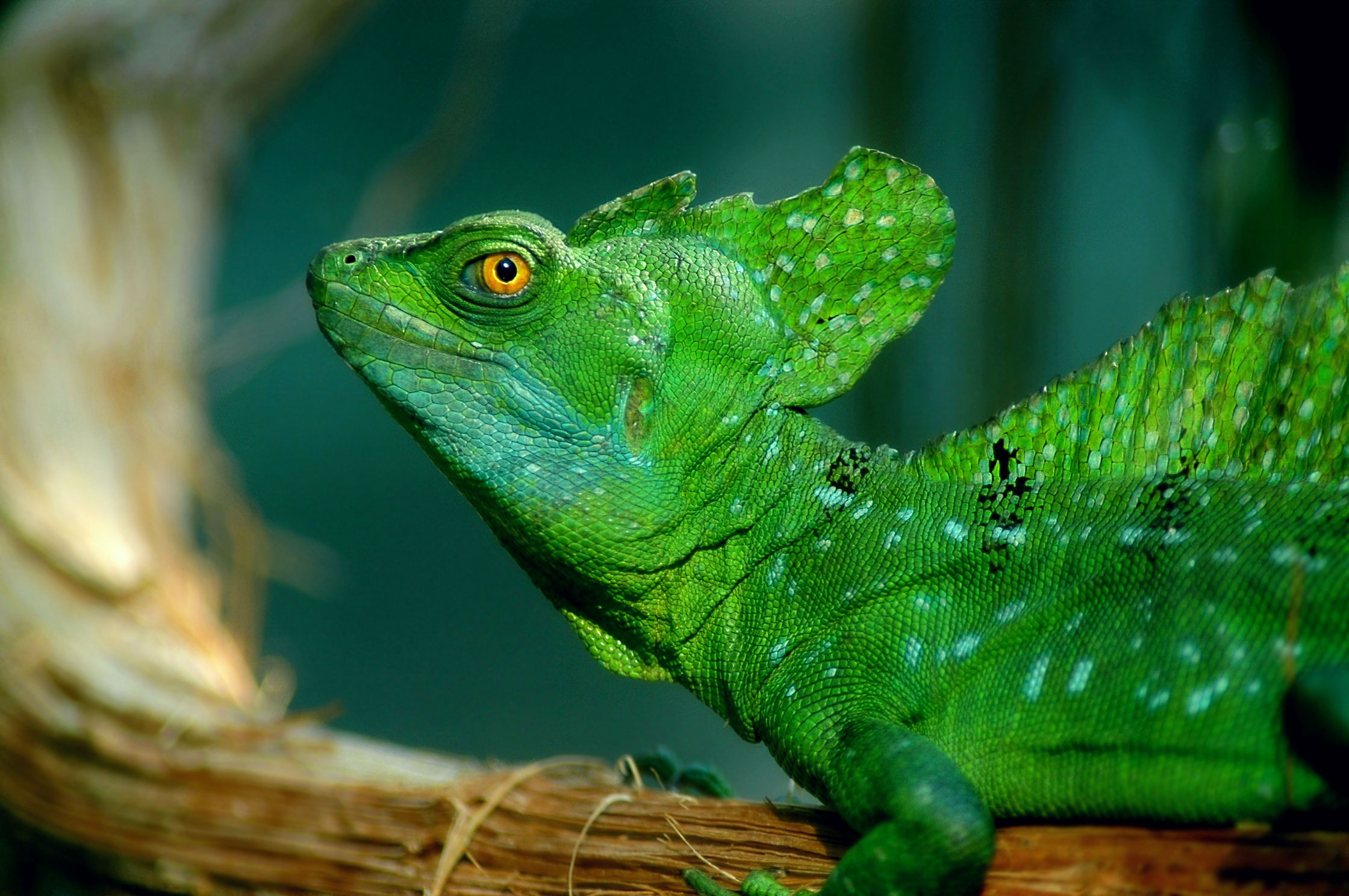 Plumed Basilisk (Basiliscus plumifrons)